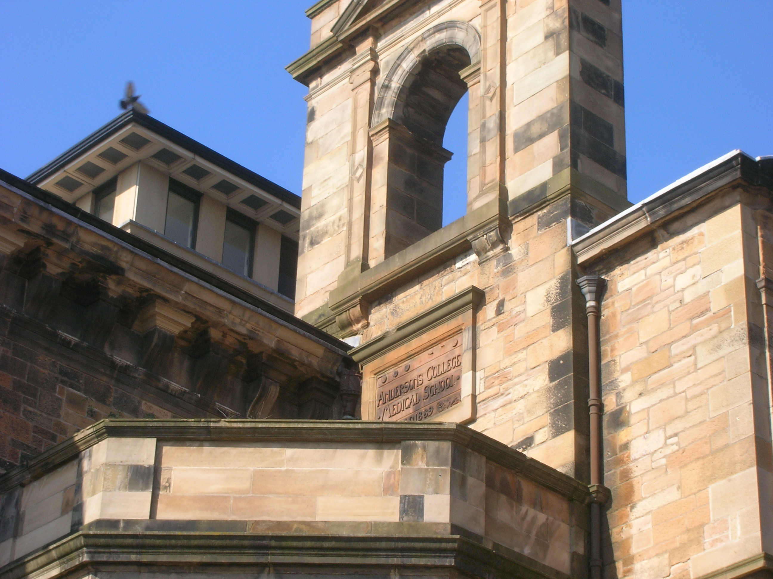 Photograph showing the tower and the plaque with the College name engraved